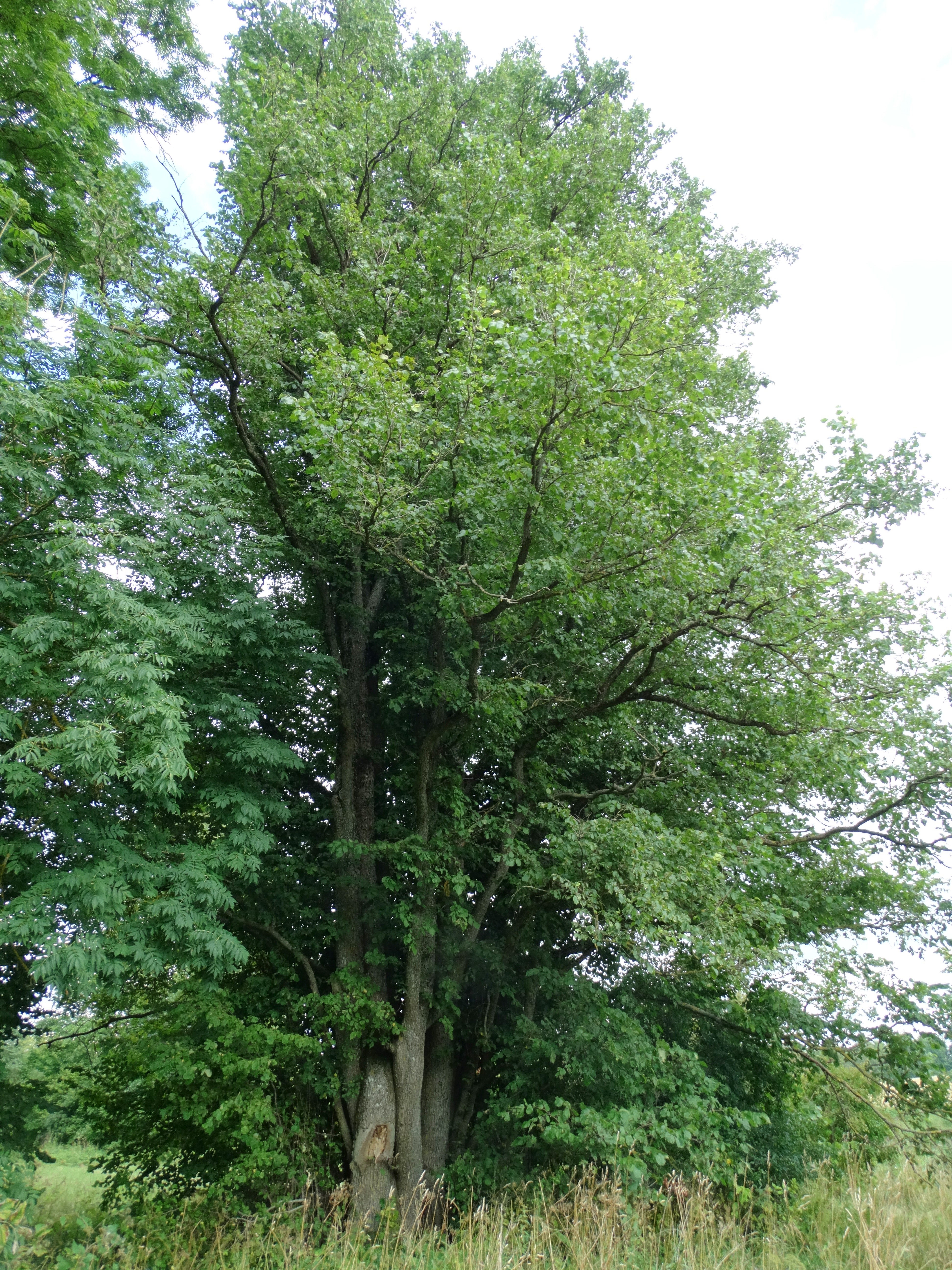 European White Elm, Šiliškiai, Akmenė District, Lithuania